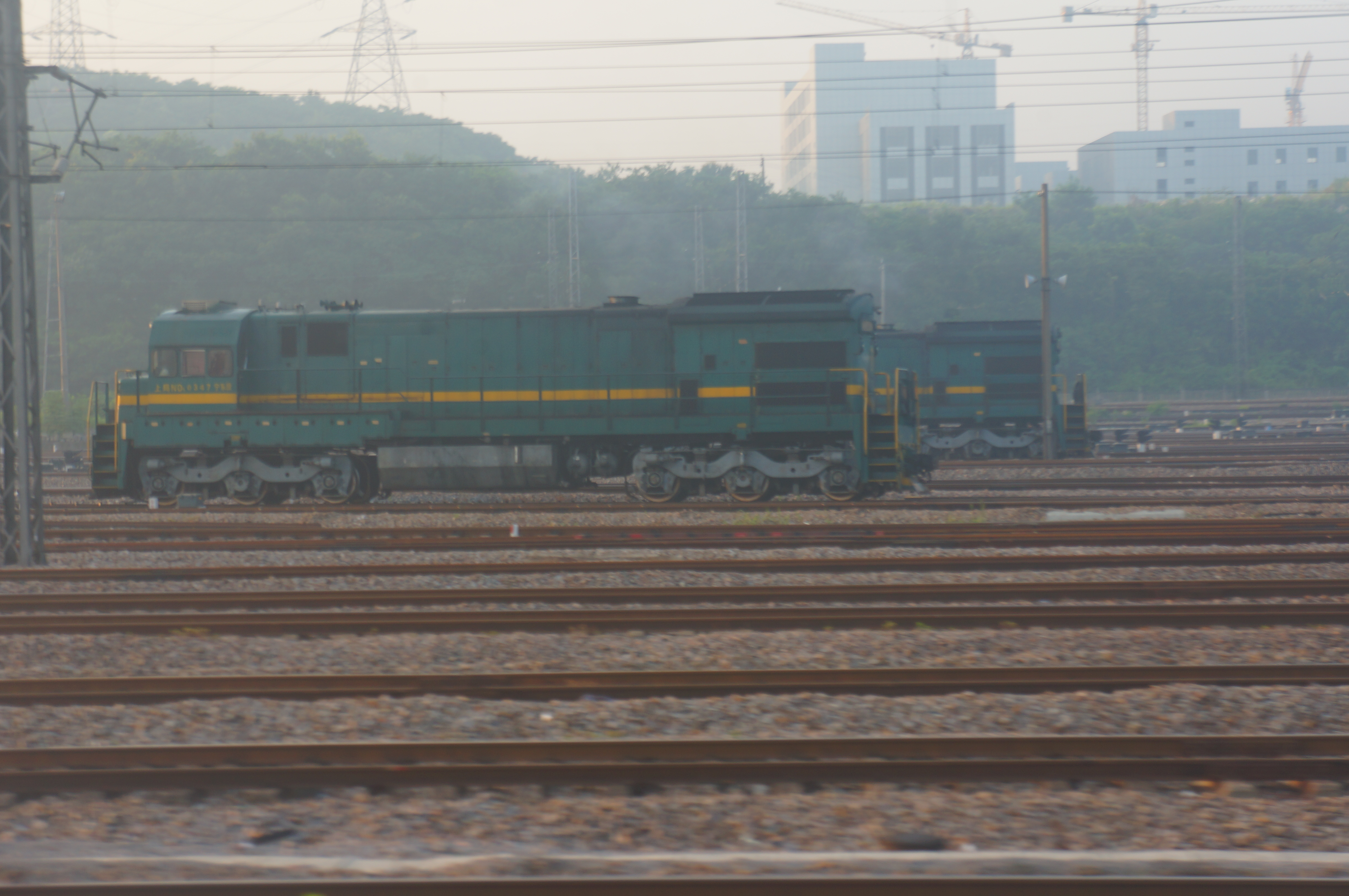 201606 ND5 Locomotives at Nanjingdong Station